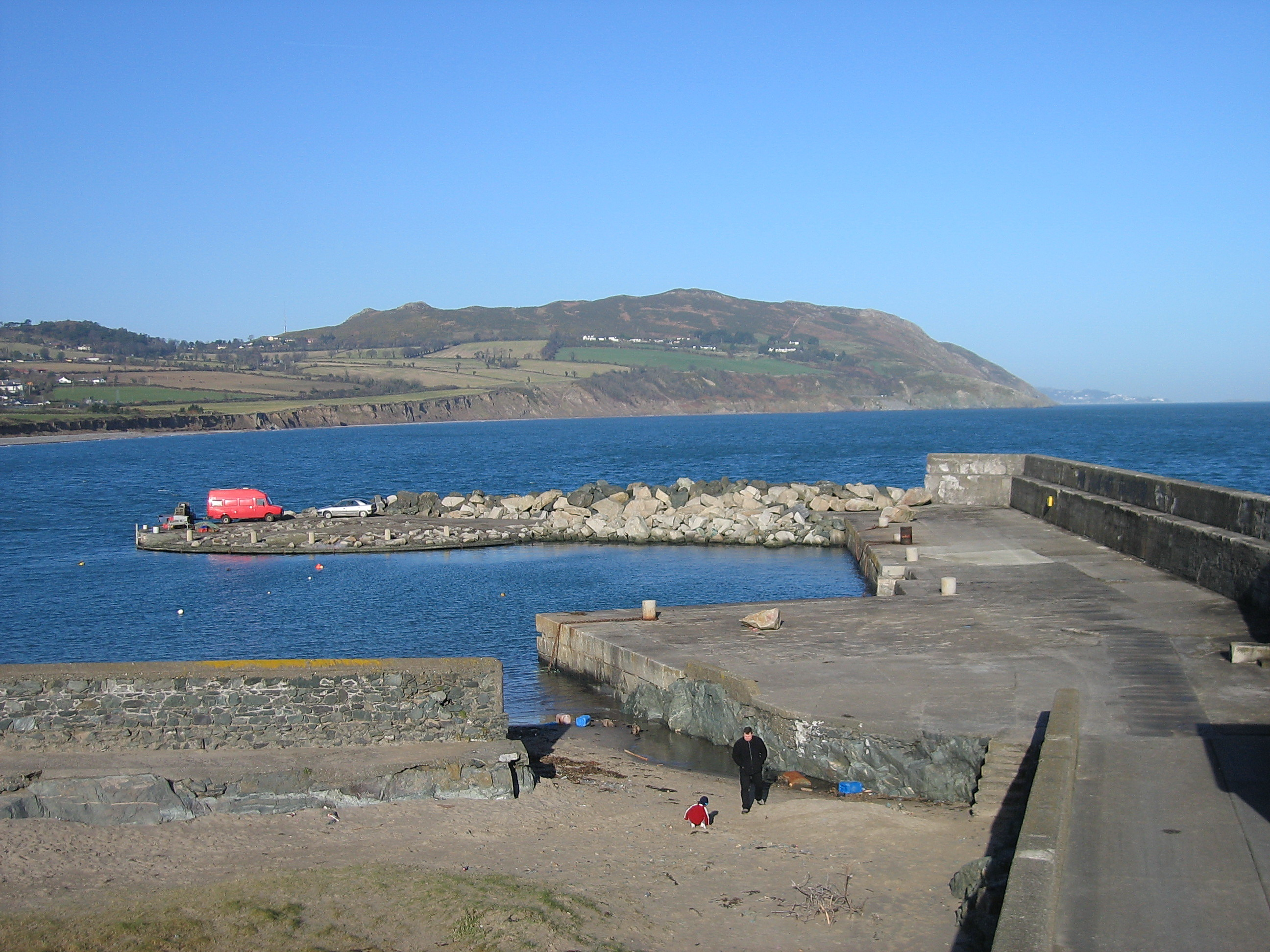 Greystones Harbour, with Bray Head in the background (Sarah777 22:34, 2 February 2007 (UTC))